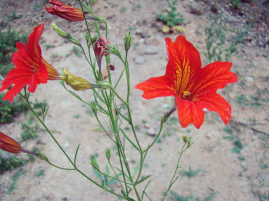 A red-flowered form of Chile's variable Painted Tongue, locally known as Palito Amargo or as Pancita de Burro. In context at